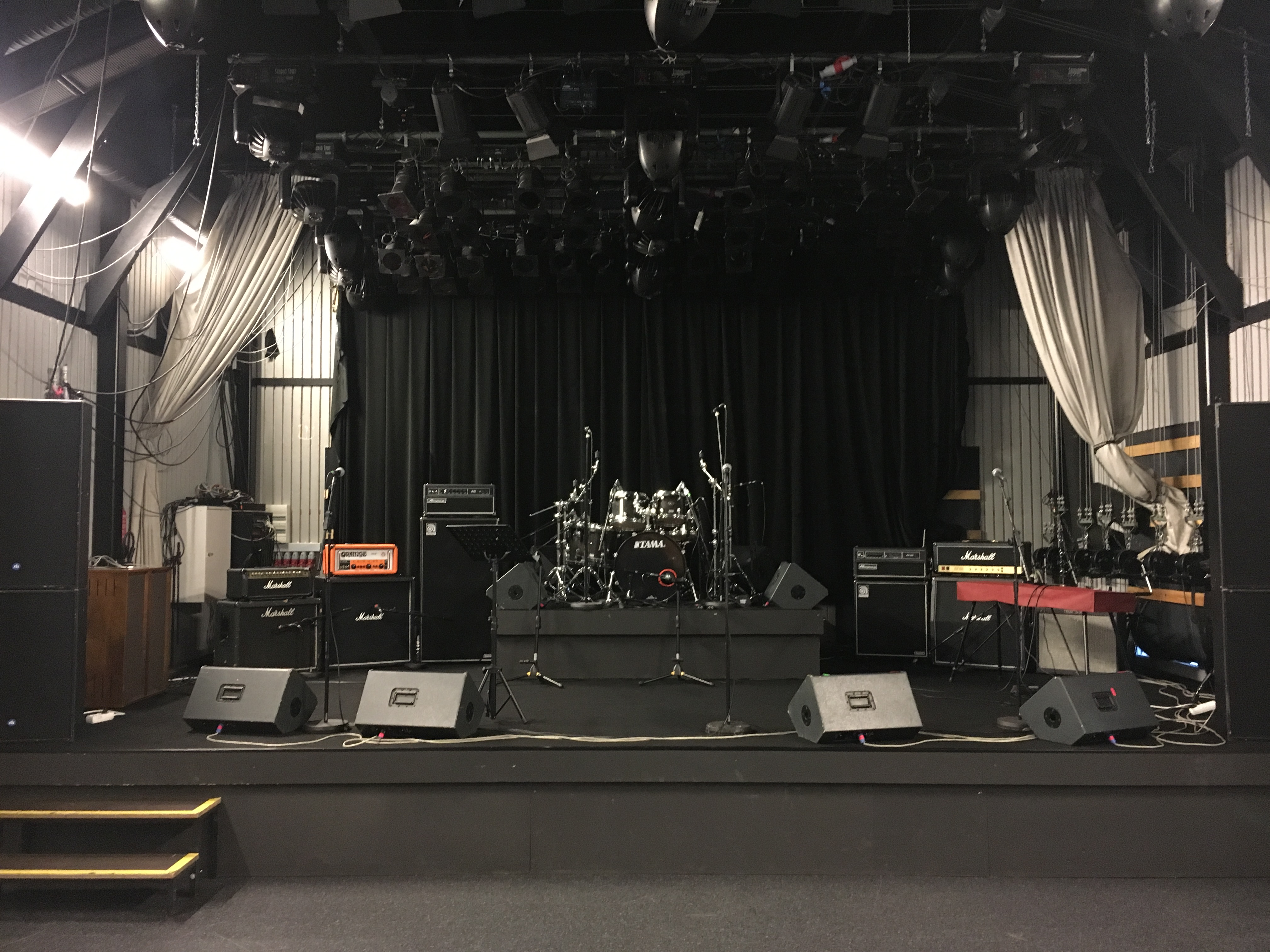 Tusen Toner Concert hall 2019